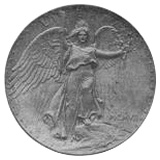 Model of early design for obverse of $20 gold piece by Augustus Saint-Gaudens